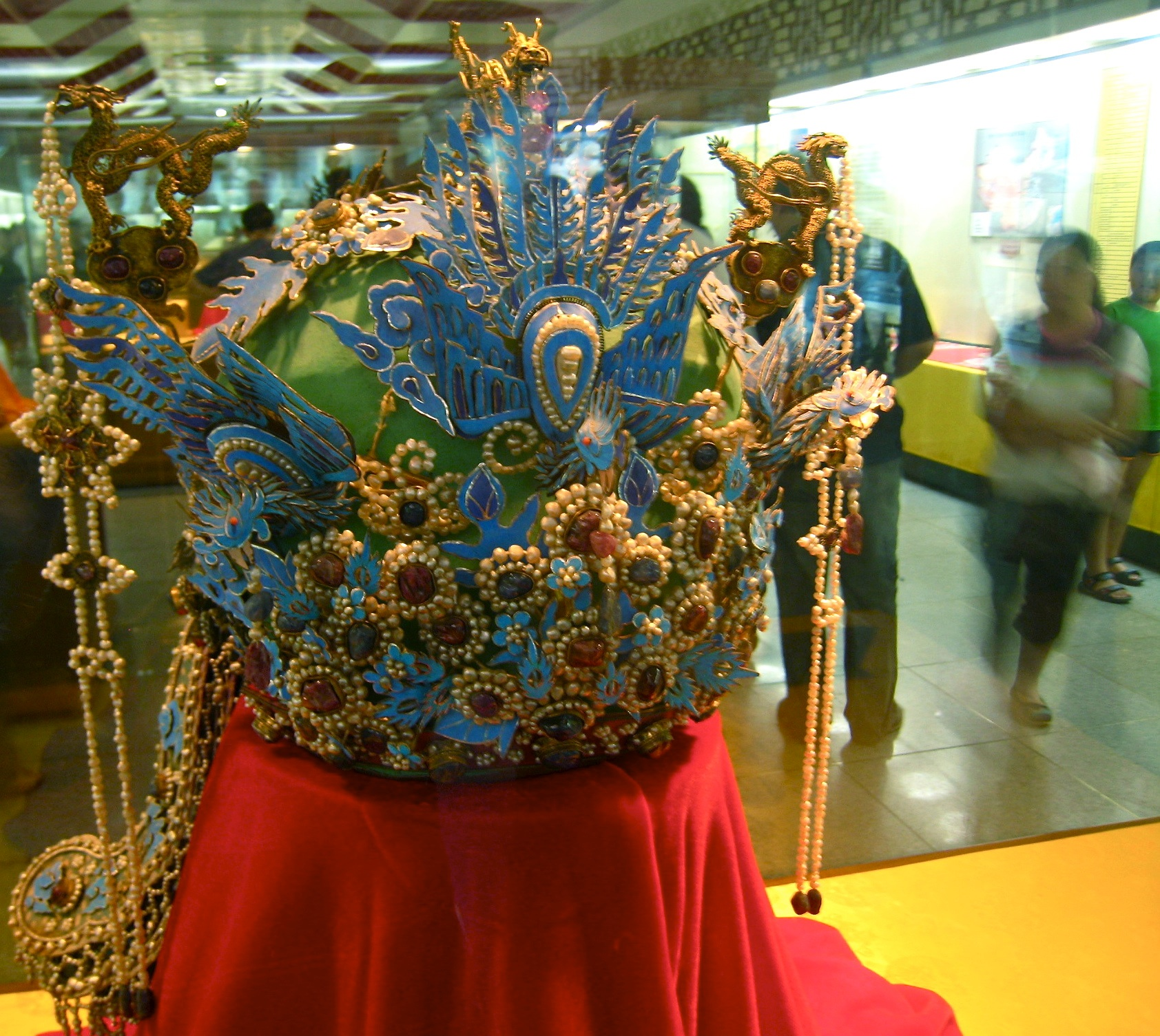 Phoenix crown excavated from the tomb of the empress of China Ming Dynasty.